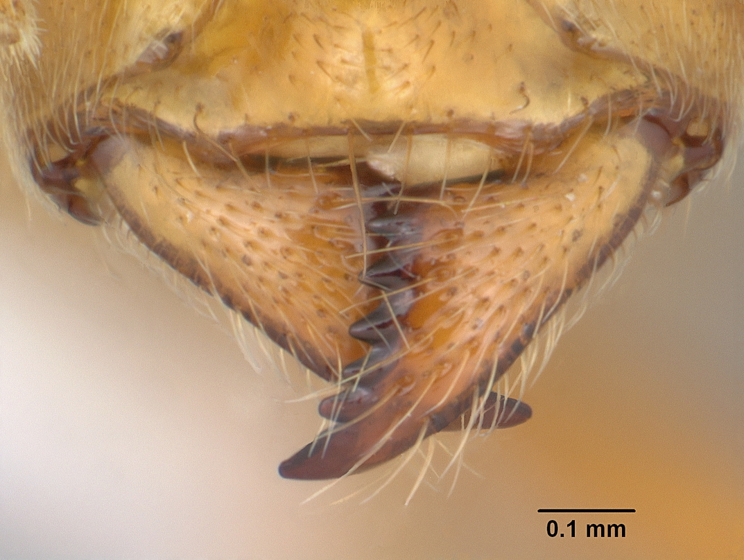 Head view of ant Acropyga bakwele specimen casent0104123.